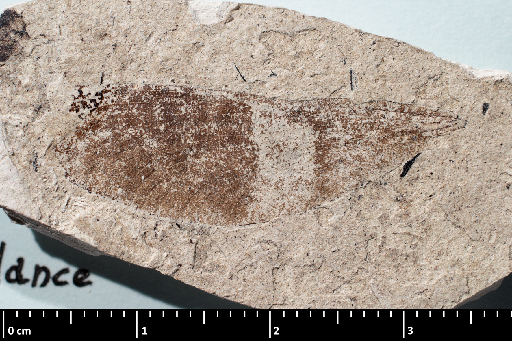 The Calopteryx andancensis holotype specimen part side with direct lighting. Turolian, Miocene; Montagne d'Andance, Saint-Bauzile, Privas, France Muséum national d'Histoire naturelle specimen MNHN.F.R10410